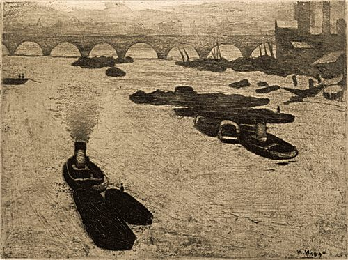 De Theems te Londen, ets (15 x 20,3 cm)